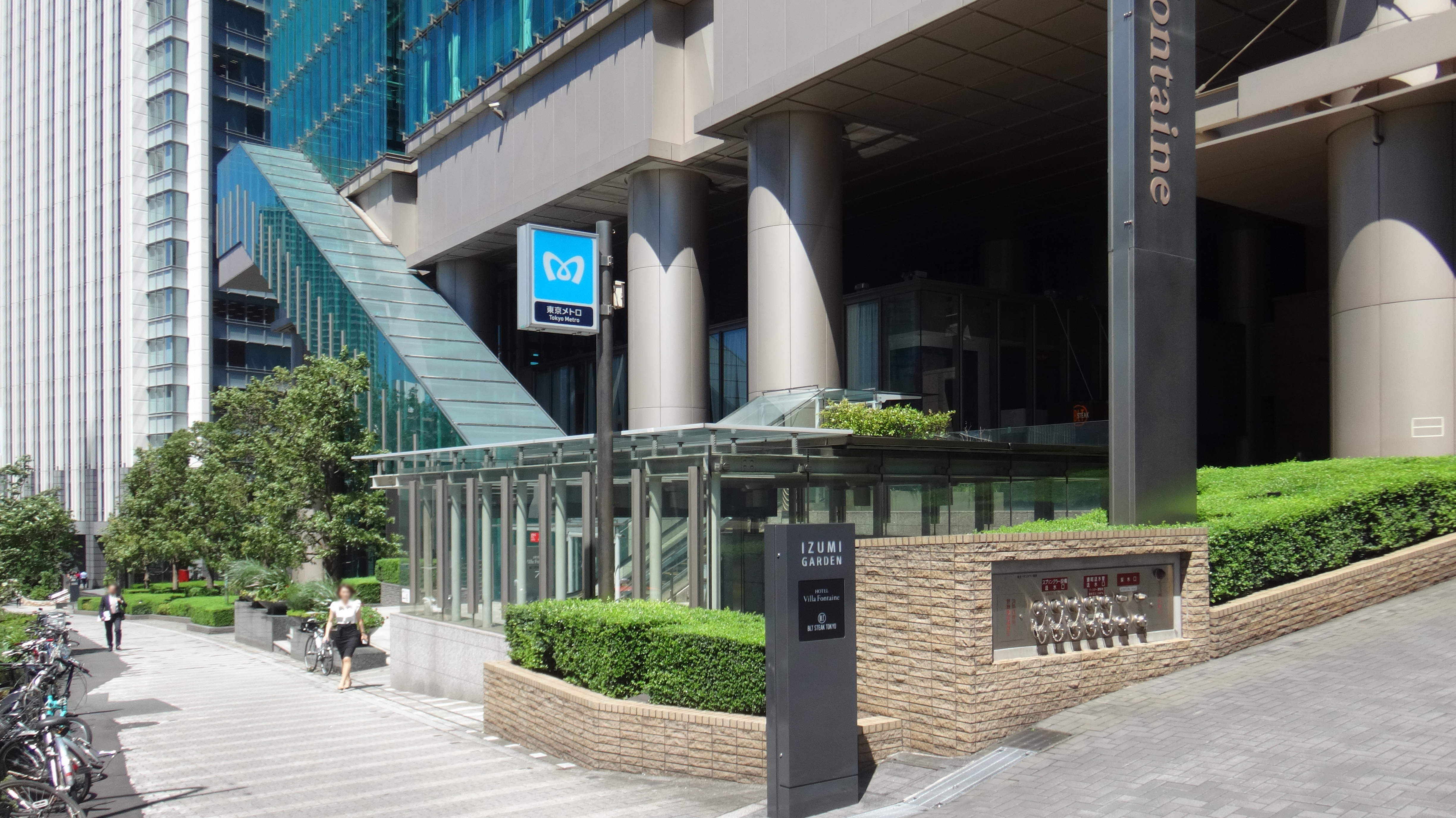 The Izumi Garden entrance (Entrance No. 1) at Roppongi-itchome Station on the Tokyo Metro Namboku Line in Tokyo, Japan